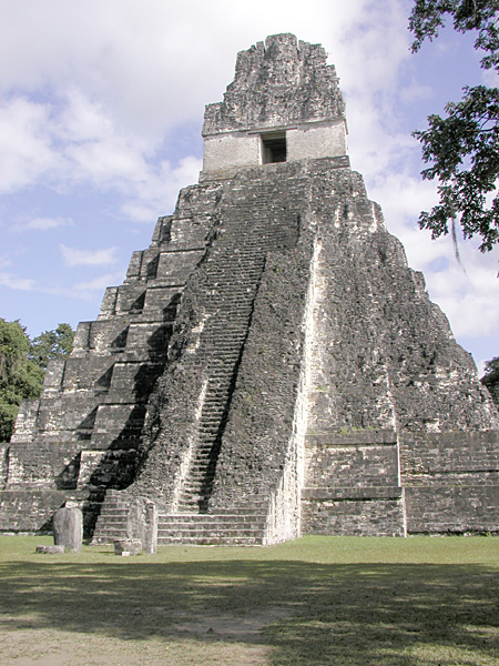 Pyramid in central plaza, Tikal, Guatemala. Image taken by Clark Anderson/Aquaimages. Category:Tikal